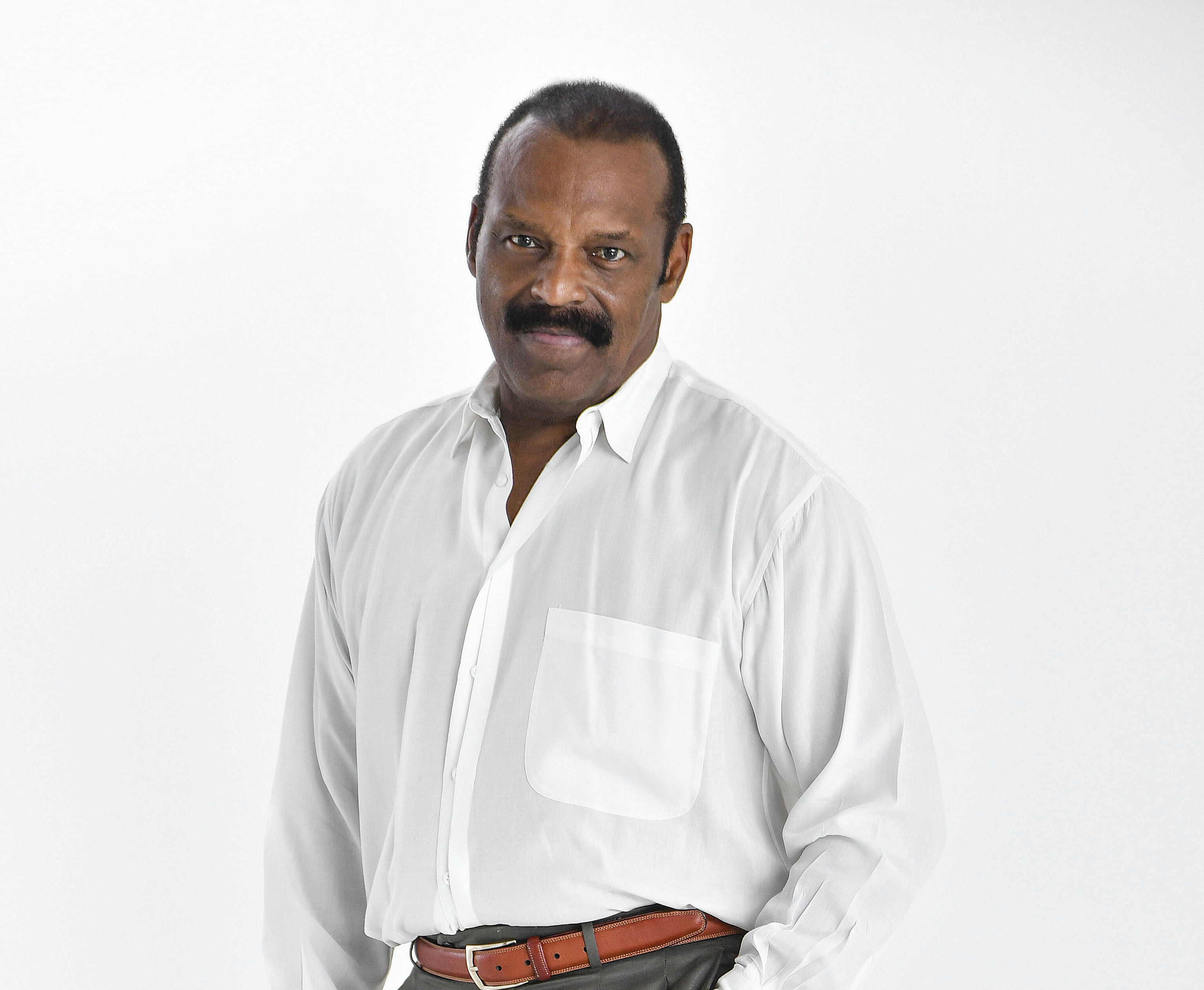 Jazz Organist photo